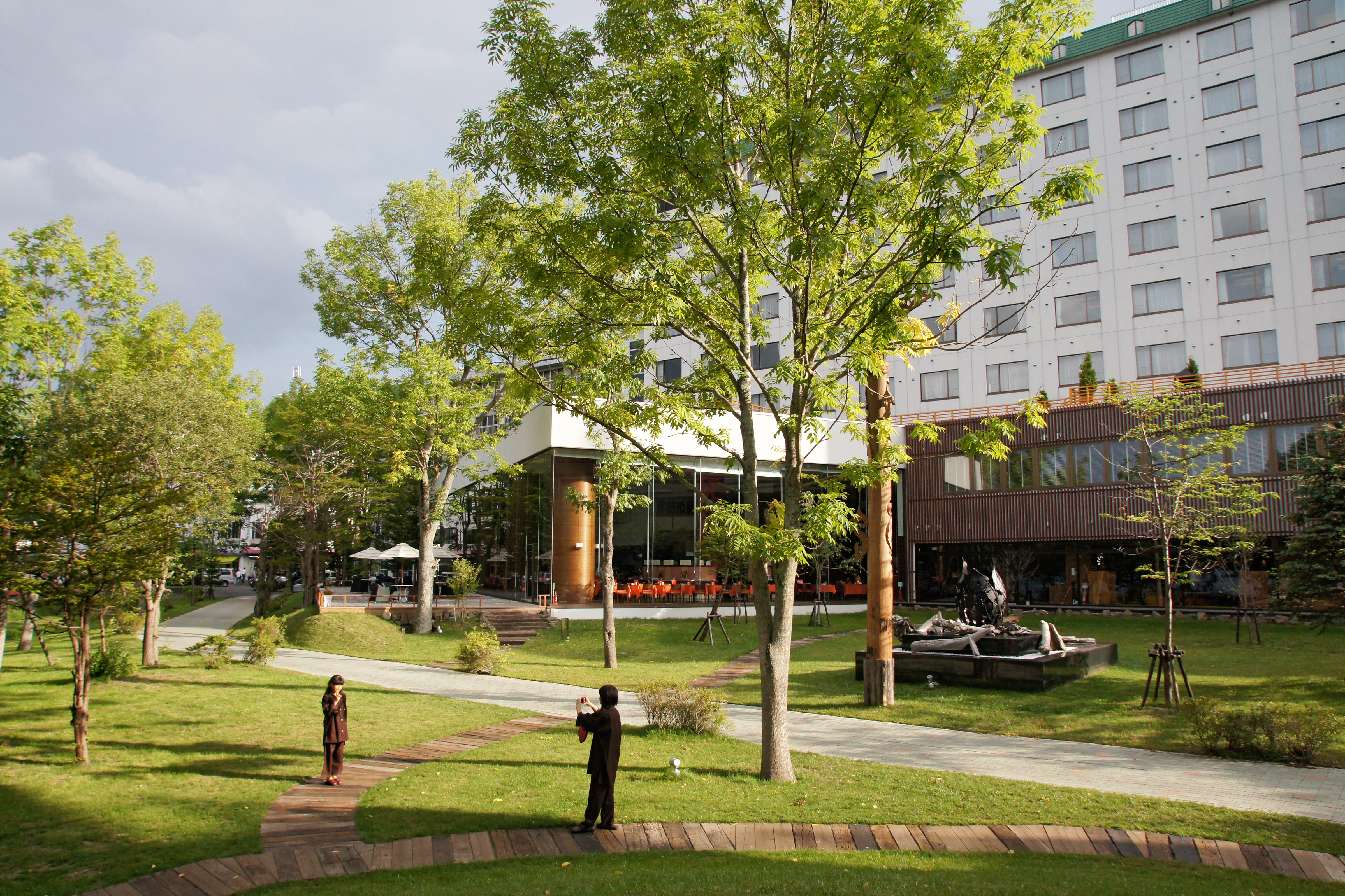 Lake_Akan_Tsuruga_Resort_Spa_Tsuruga_Wings in Kushiro City, Hokkaido prefecture, Japan